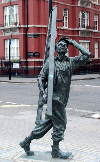 Statue of a window cleaner, Chapel Street, London W1 This statue stands near the entrance to Edgware Road underground station on Chapel Street, London W1. To see what the figure is staring at see [1] .